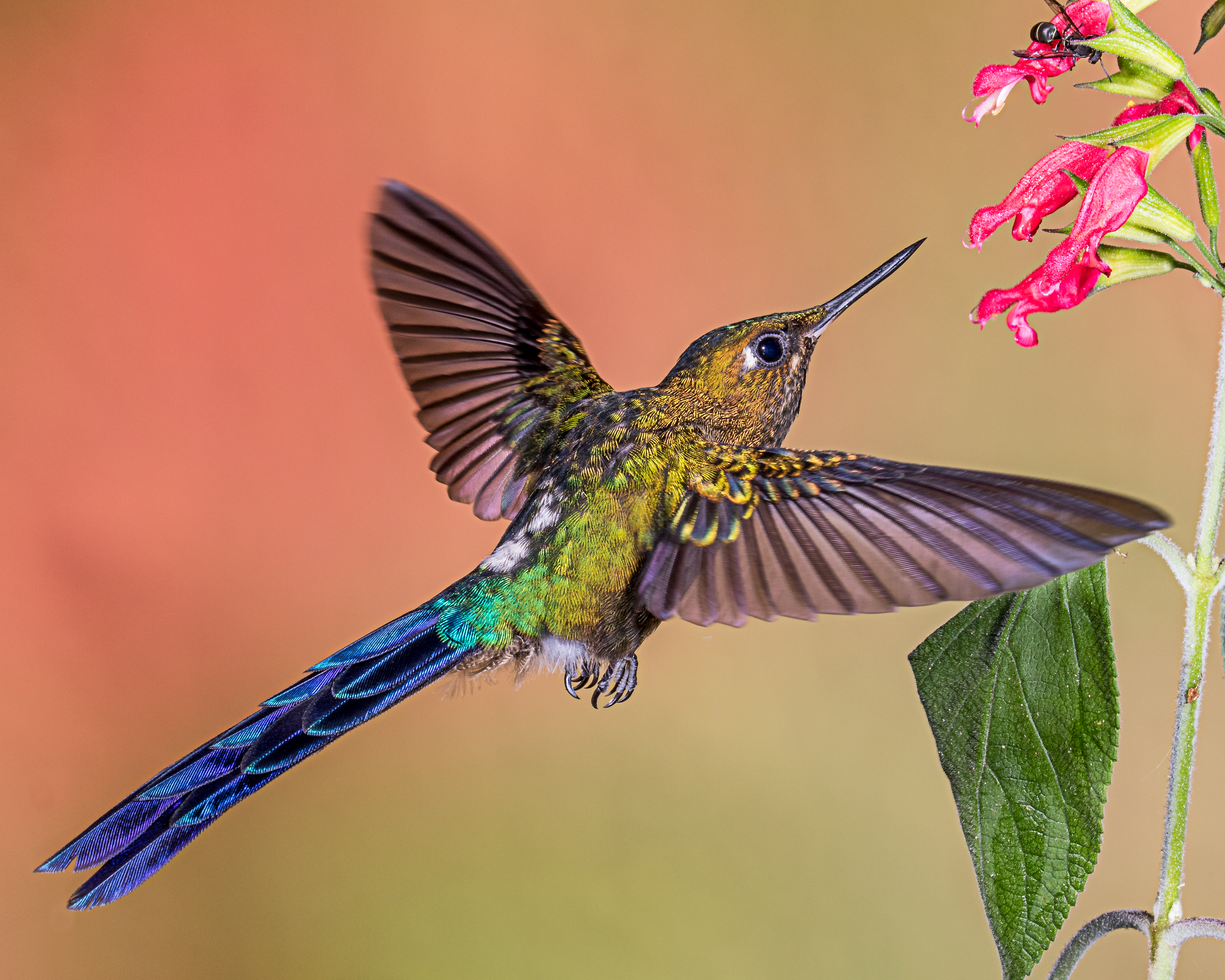 This hummingbird was photographed in Tandayapa Lodge, Ecuador.